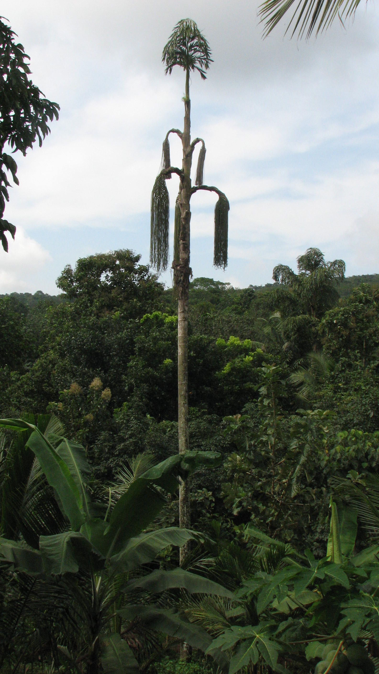 Caryota urens Or Fish Tail Palm.